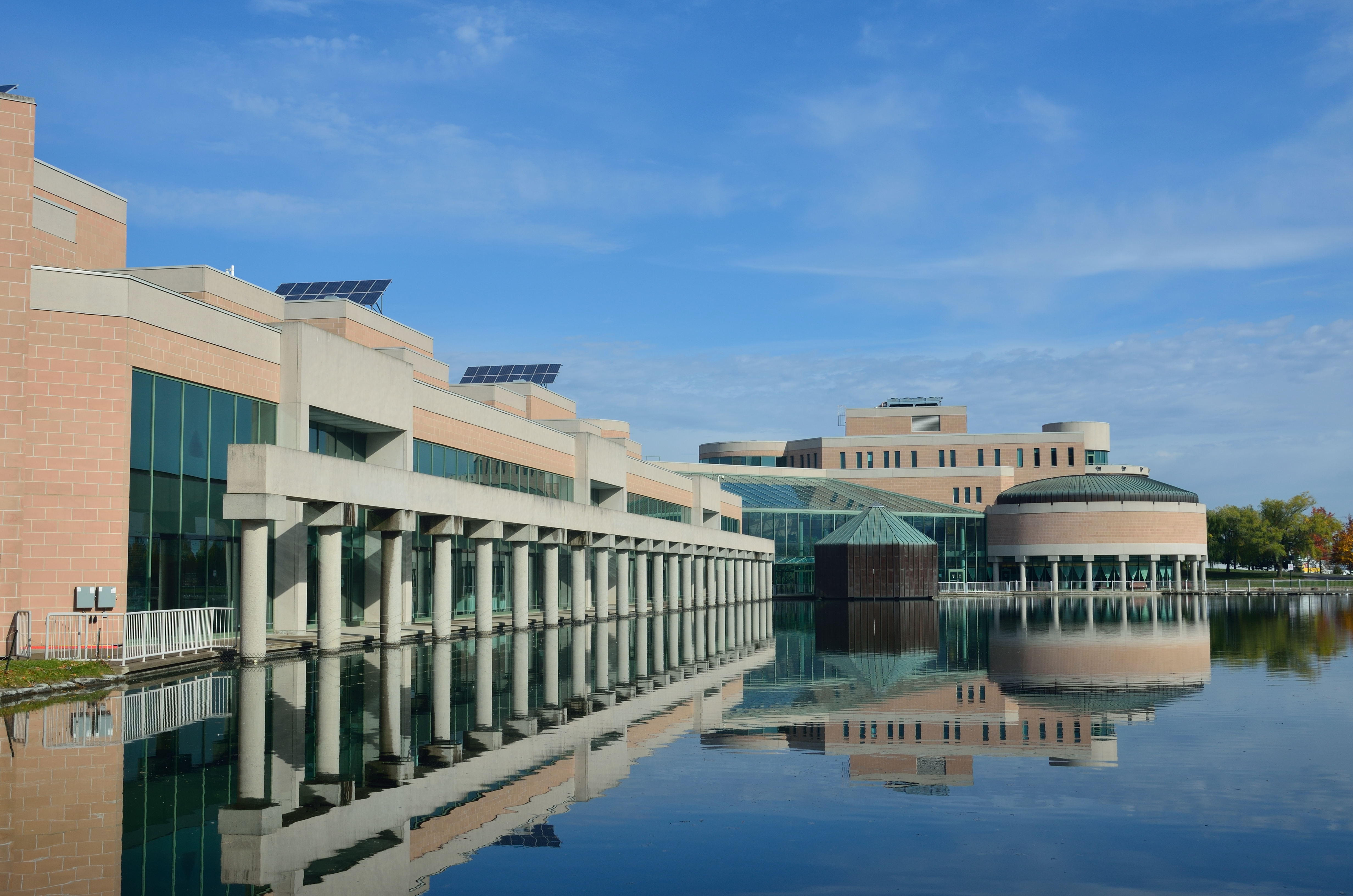 Markham Civic Centre